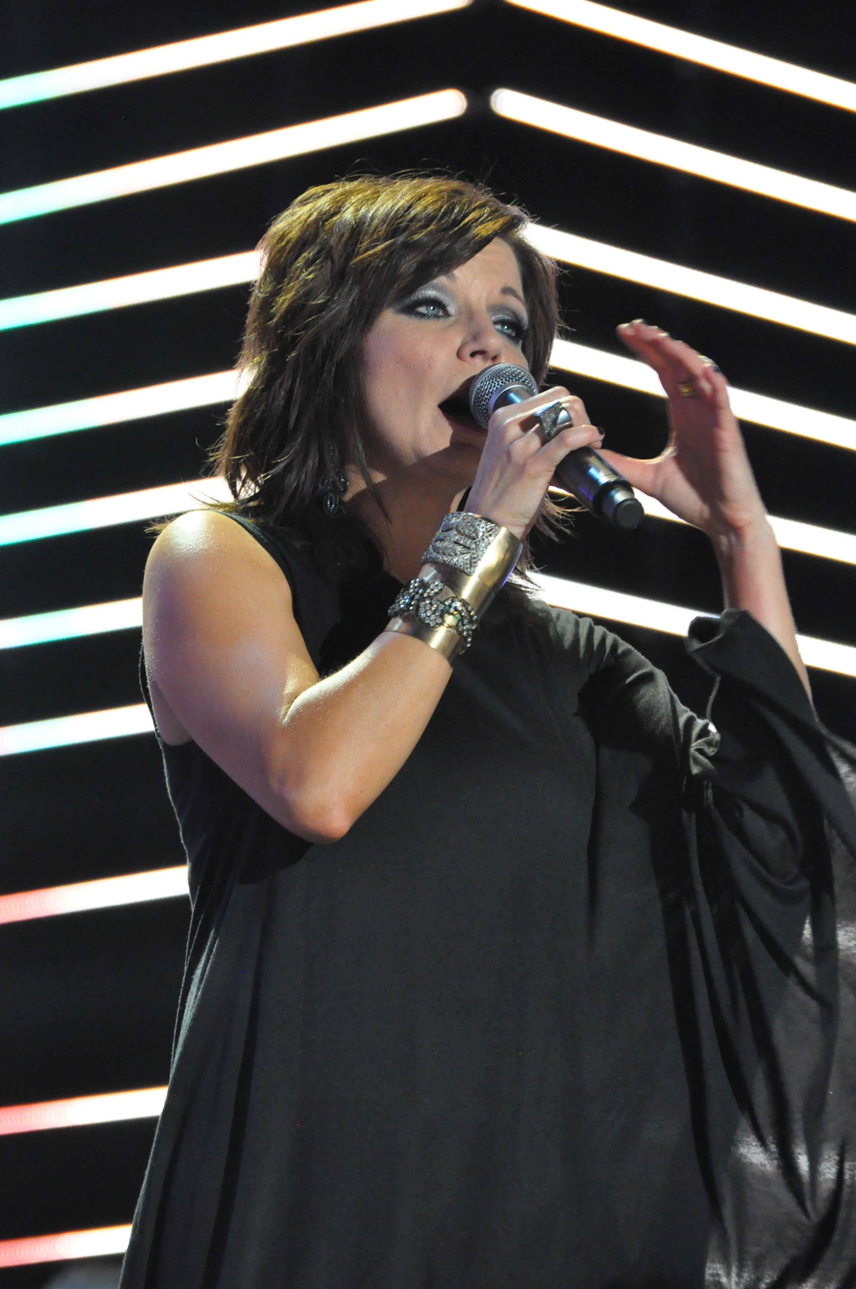 Martina McBride performing in June 2010